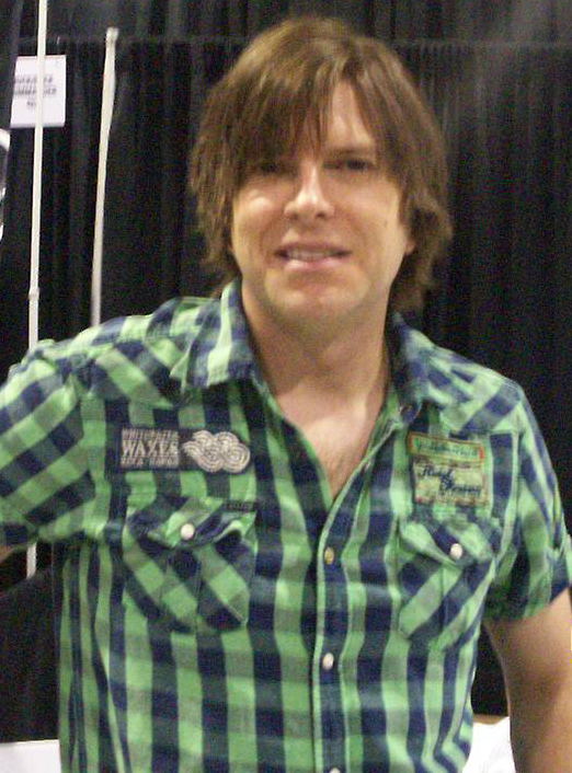 Country music singer Brady Seals at CMA Music Fest, June 2010.